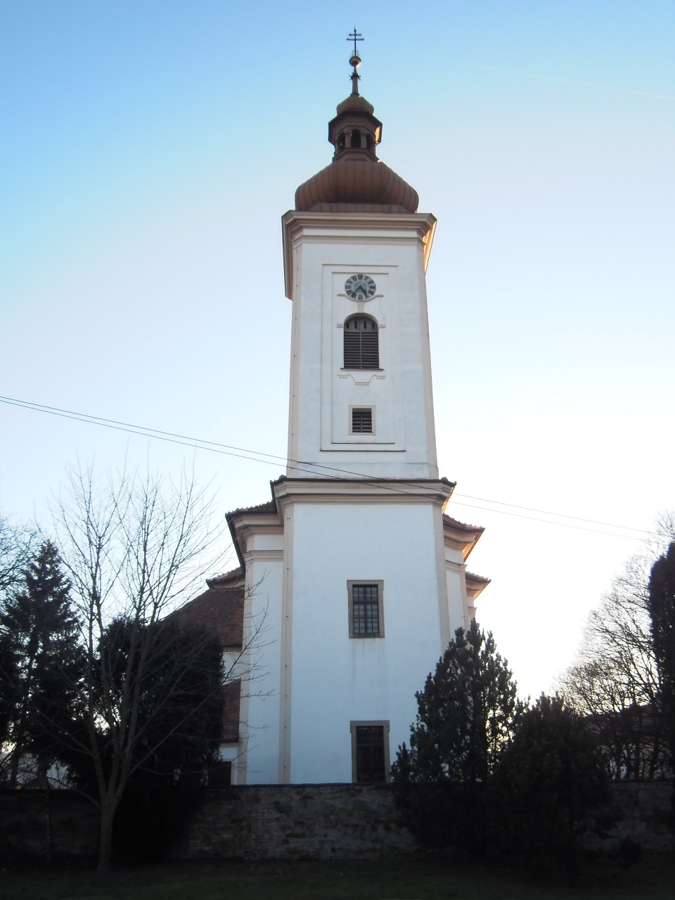 Tower of the Church of saint Vavrinec in Hluk town